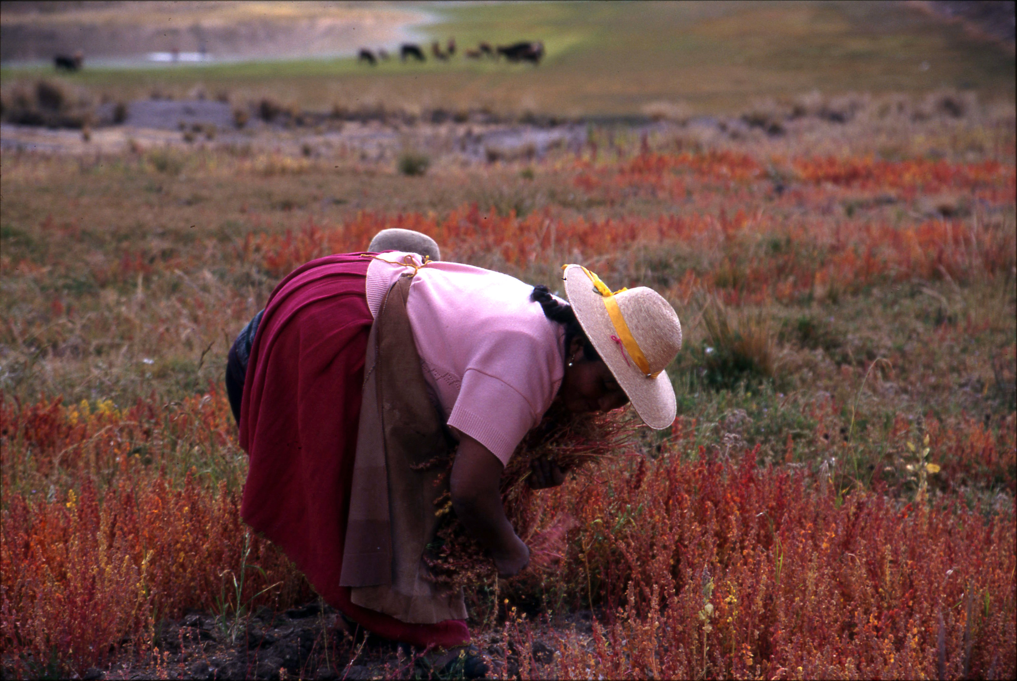 altiplano in Peru